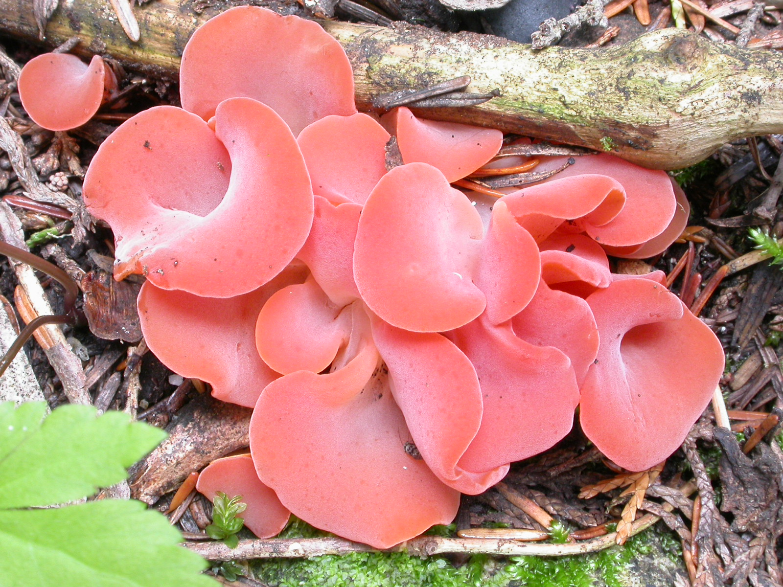 The fungus Guepinia helvelloides (DC.) Fr. Specimen photographed in Cypress Provincial Park BC Canada. "Notes: Growing on soil and forest litter in sub alpine Douglas Fir, Mountain Hemlock and Amabilis Fir forest"